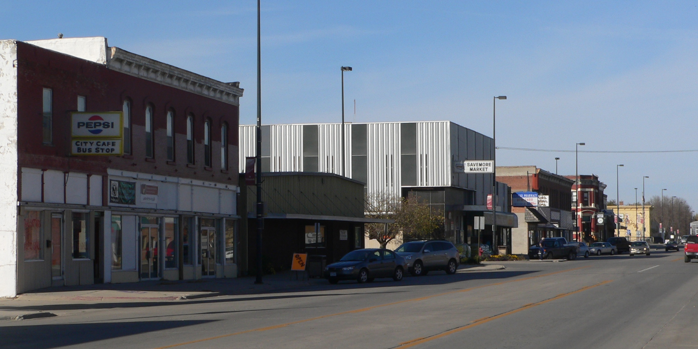 Downtown Tekamah, Nebraska: west side of 13th Street, looking northwest from about I Street.